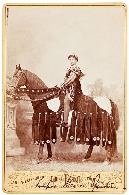 Max Freiherr von Oppenheim as 'von der Aducht', a legendary figure of Cologne history. Photographed on occasion of the historic parade in 1880, celebrating the finishing of Cologne Cathedral. Photo by Carl Westendorp.